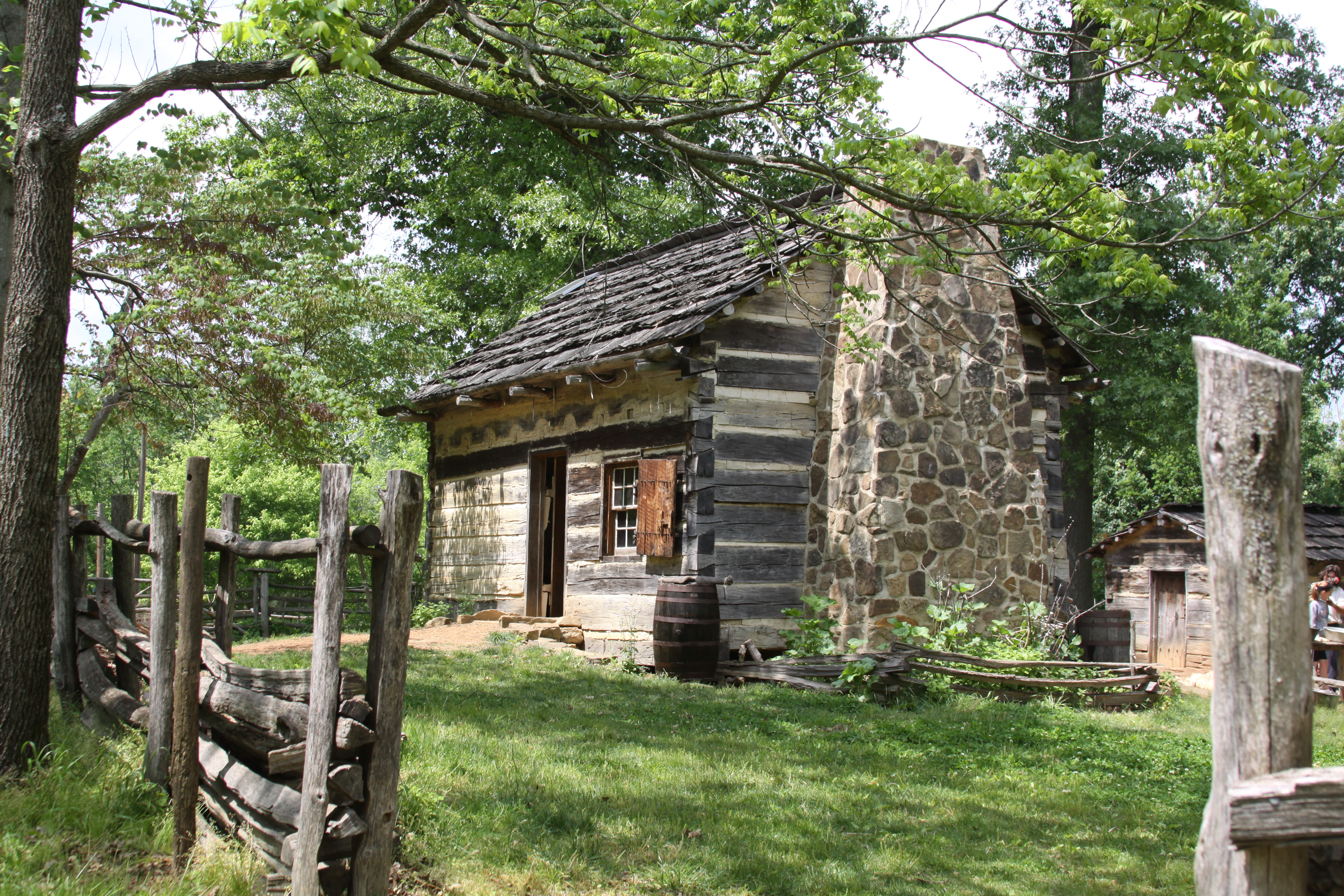 The log cabin at the Lincoln Living Historical Farm, part of the Lincoln Boyhood National Memorial